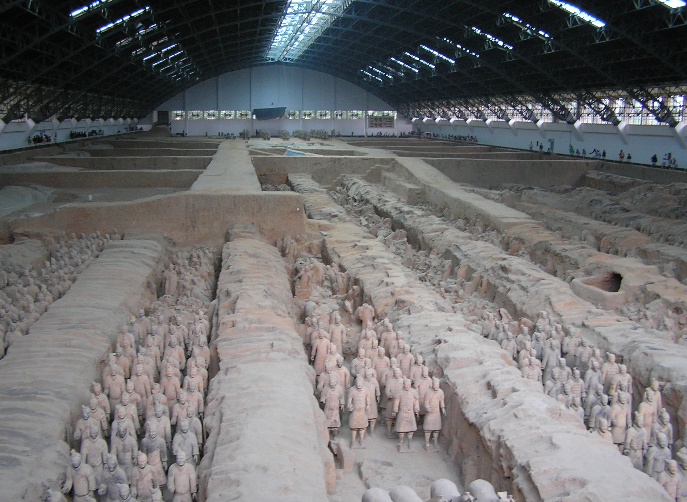 I took this picture in summer 2005. The excavation pit is huge, as you can see.